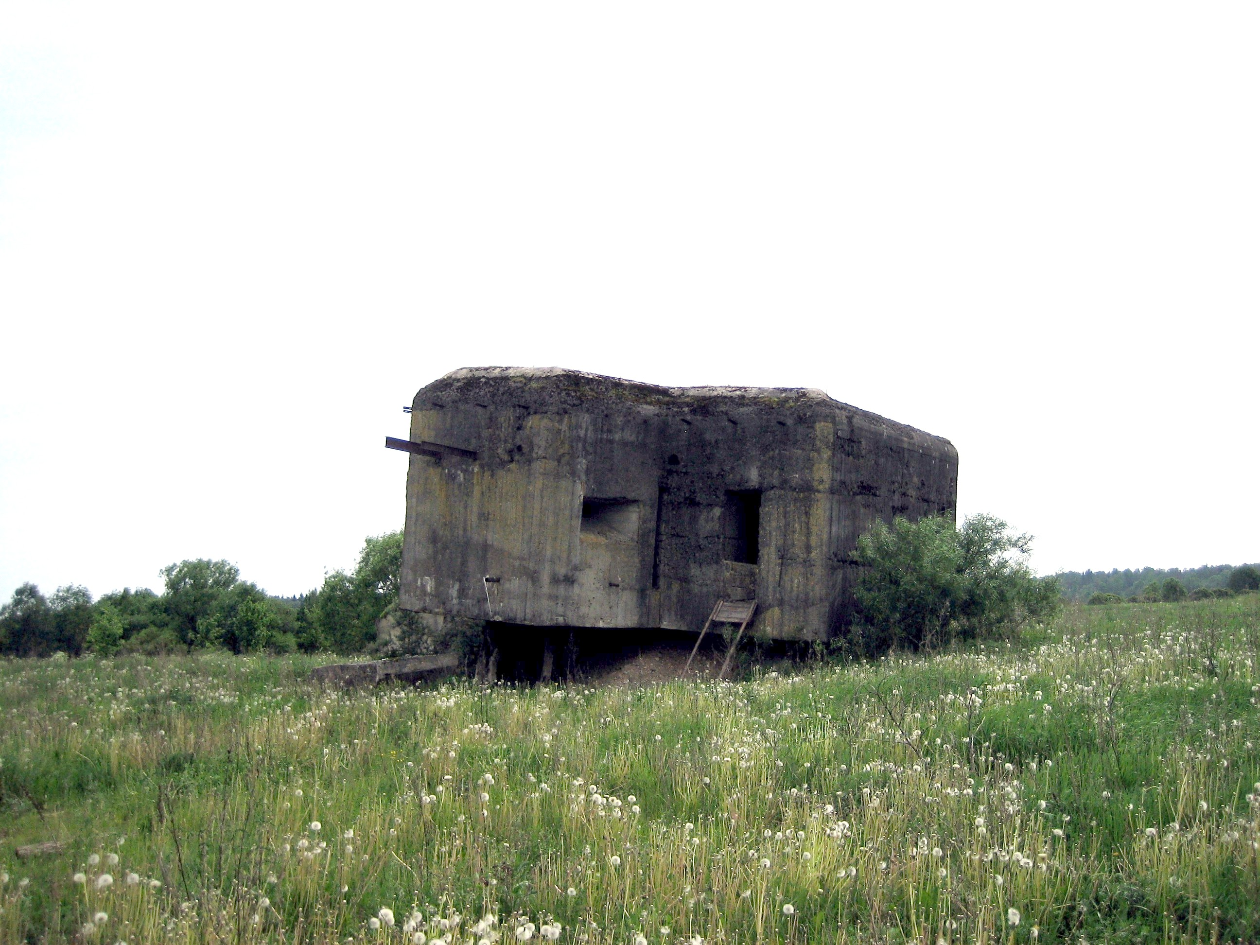 Molotov defence line bunker near Didkiemis, Lithuania